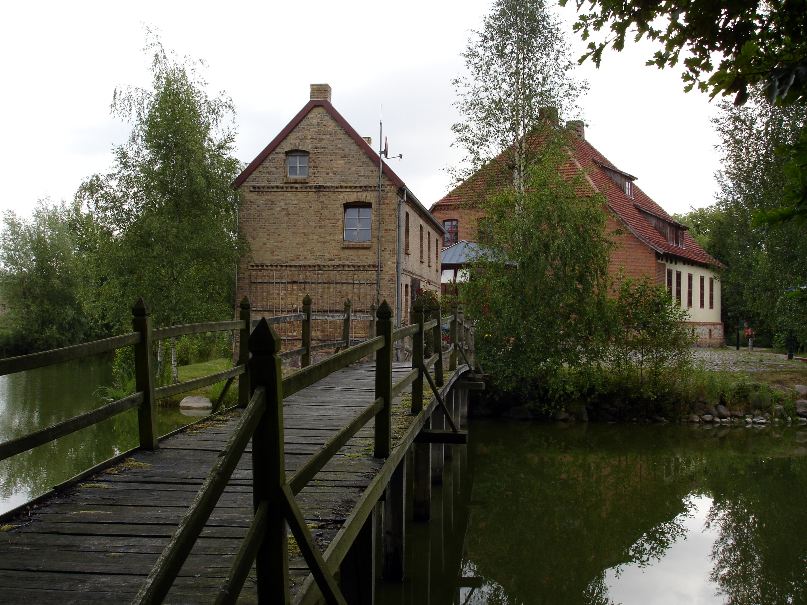 Castle in Gielow-Liepen, Mecklenburg-Vorpommern, Germany